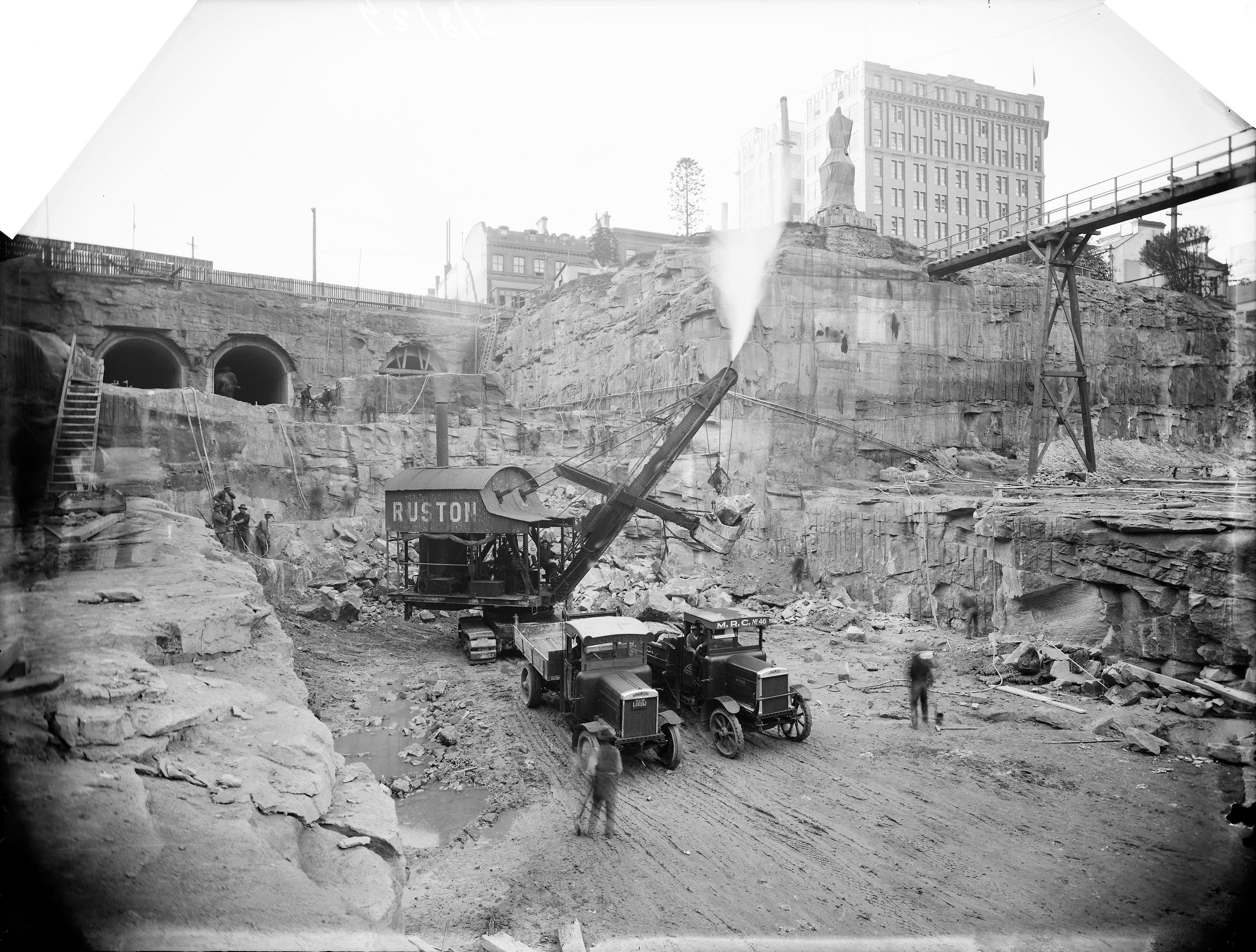 Building Sydney Rail Network, Kembla Building 58 Margaret Street in background, Leyland trucks foreground with Ruston Steam Shovel, Arthur Ernest Foster, State Library of New South Wales Box 37 No. 428.